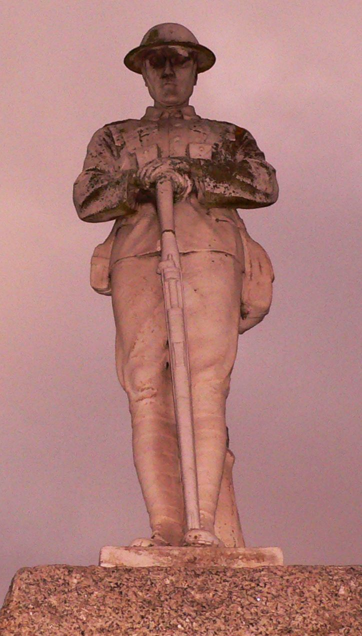 The statue of the unknown soldier, Eston